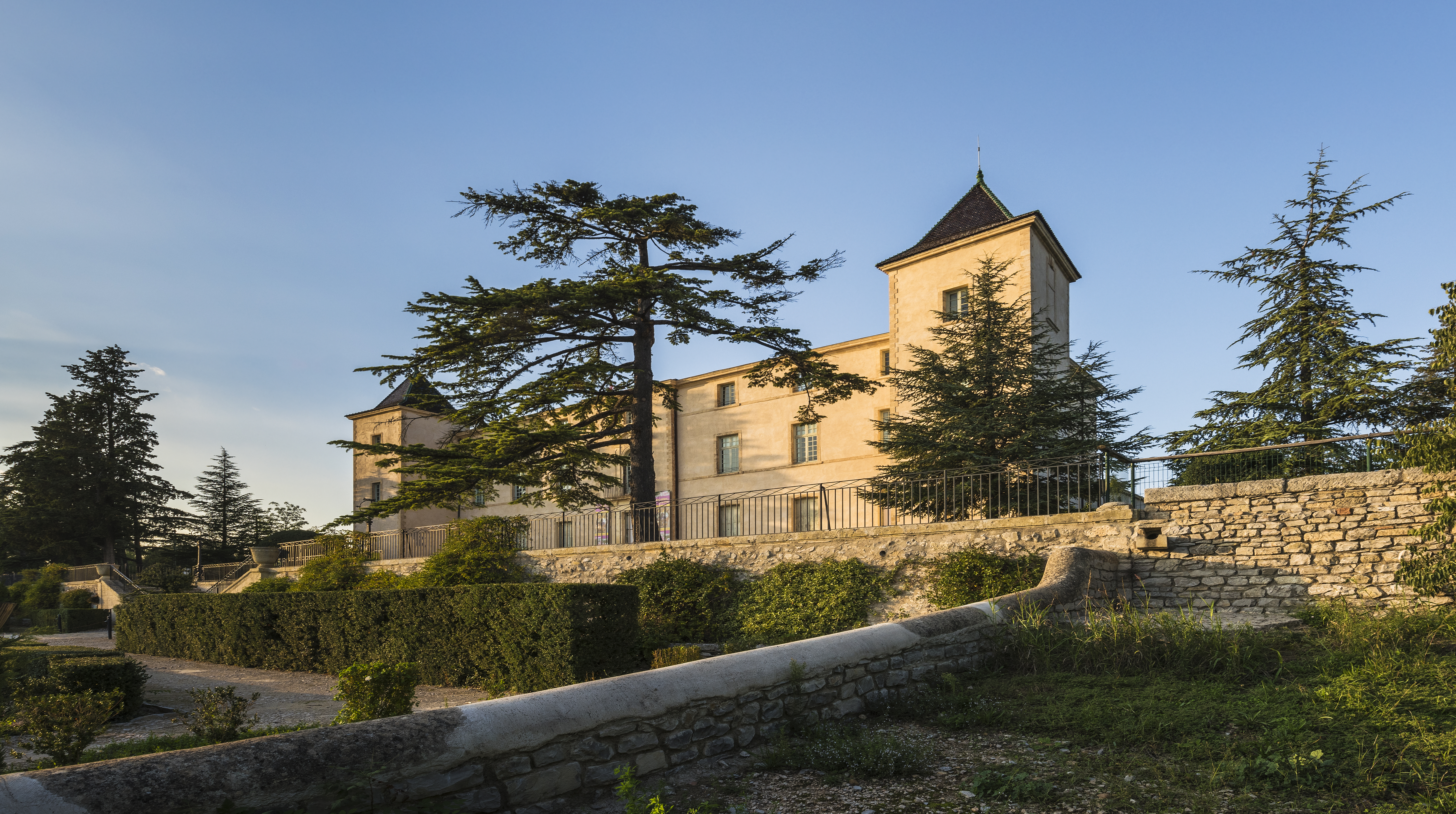 Castle of Restinclières (XVIIth century) in the Domaine départemental de Restinclières. Main facade (southern). Prades-le-Lez, Hérault, France.